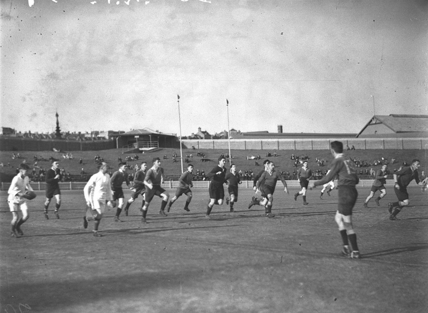 Rugby Union final: Manly v Randwick